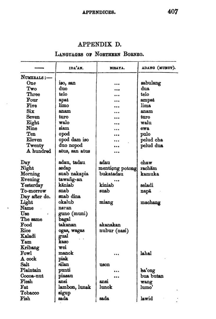 Screenshot of a page of "List of words in English and translation in Idahan, Bisaya and Adang (Murut)"